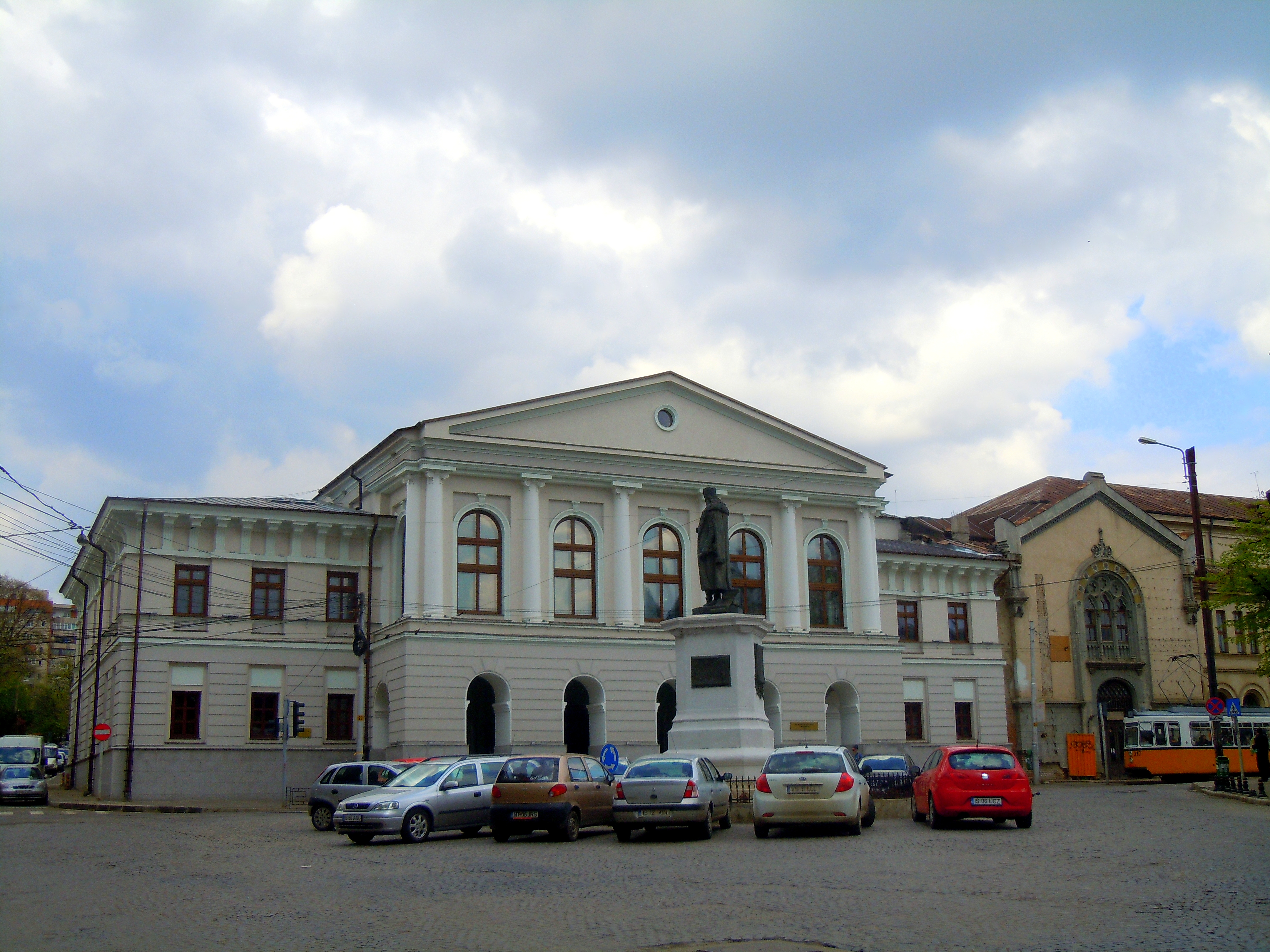 Alecu Balș House , former French Institute for girls "Notre Dame de Sion" , Iaşi ,RomaniaRomână: Casa Alecu Balș , fostul Institut Francez de fete "Notre Dame de Sion" , Iaşi ,Romania 02